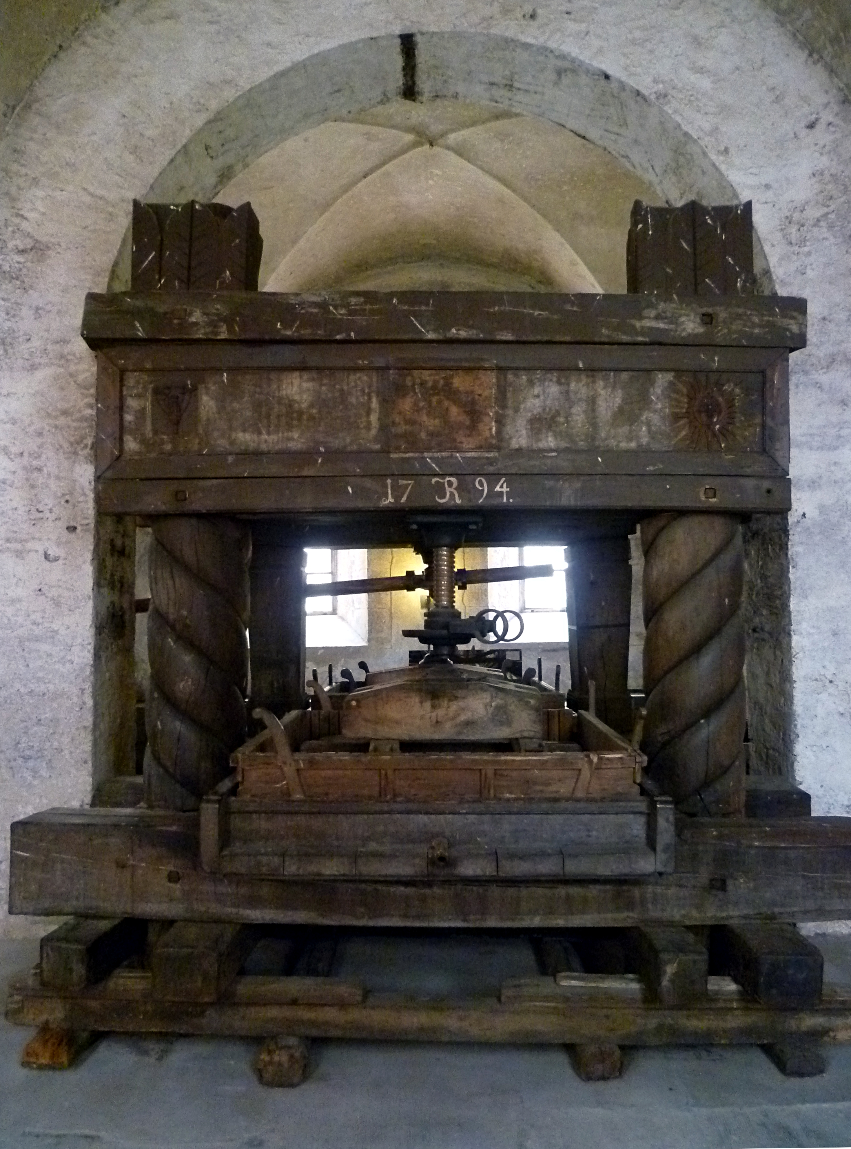 Wine press in the winery of Eberbach Monastery, Germany.